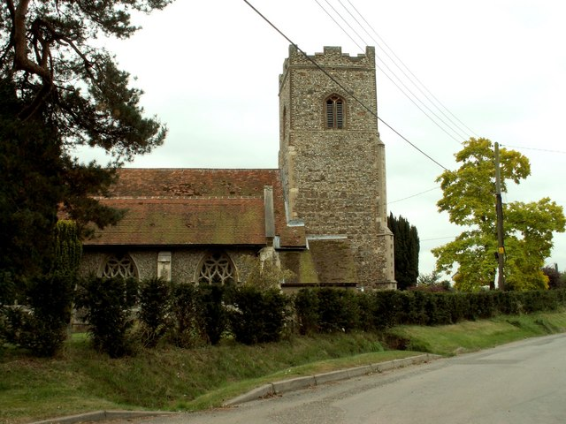 St. Mary & St. Martin's; the parish church of Kirton This church dates back to the 14th century, however, the tower was built in 1520 and the north aisle is 19th century.